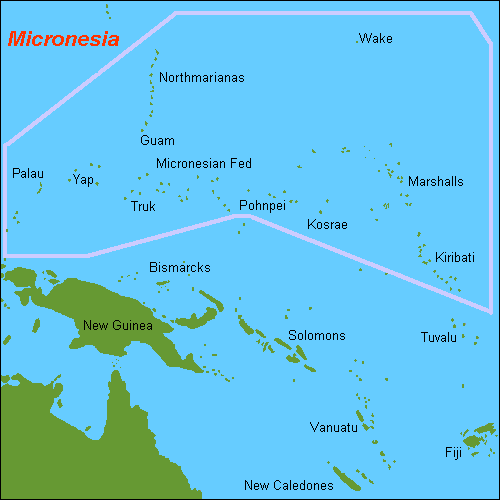 Map of Micronesia